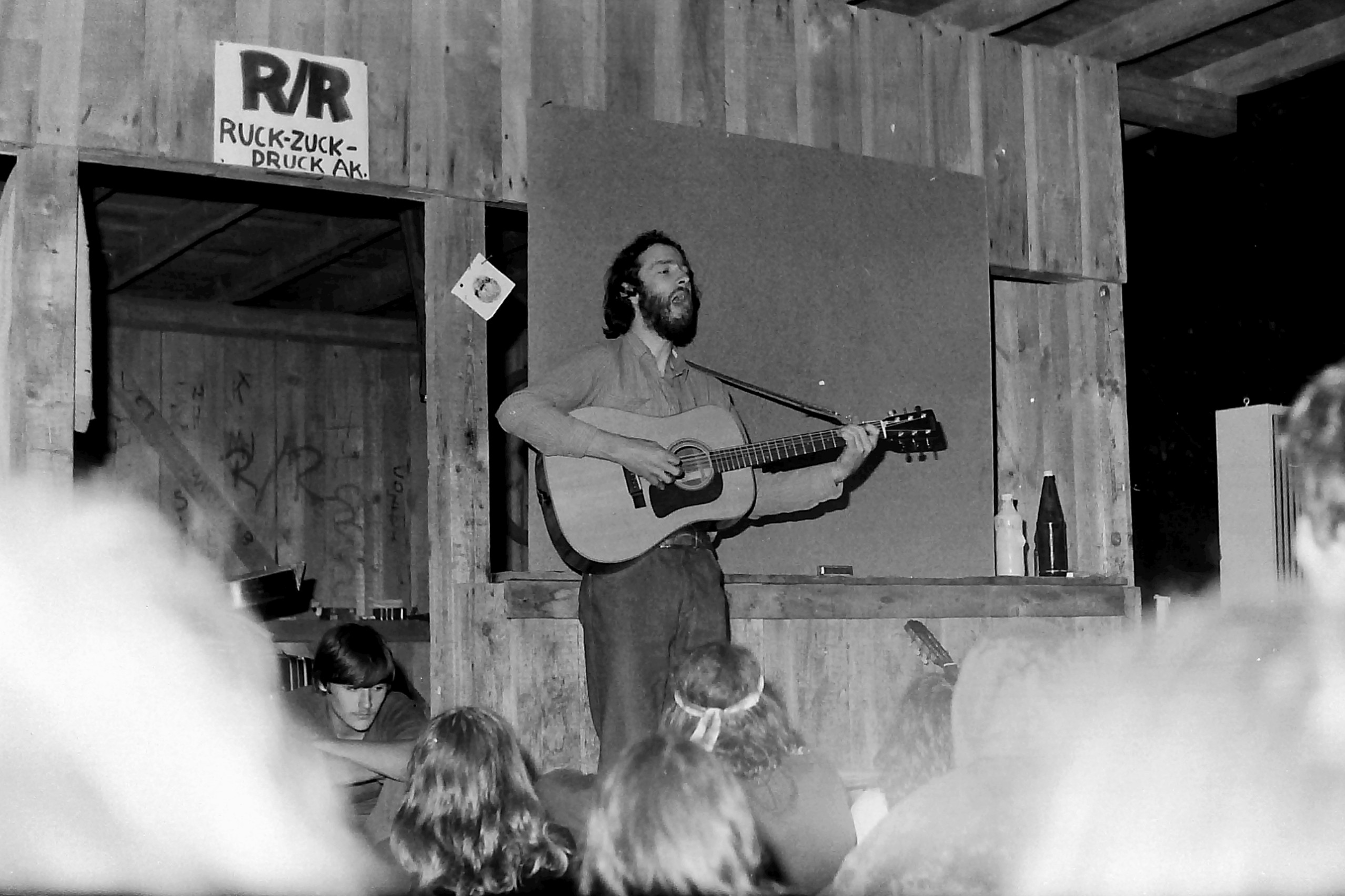 Thomas Felder, folk singer-songwriter from Germany, 1981 performing at a scout camp at the scouting campground "Brexbachtal" near Koblenz / Germany